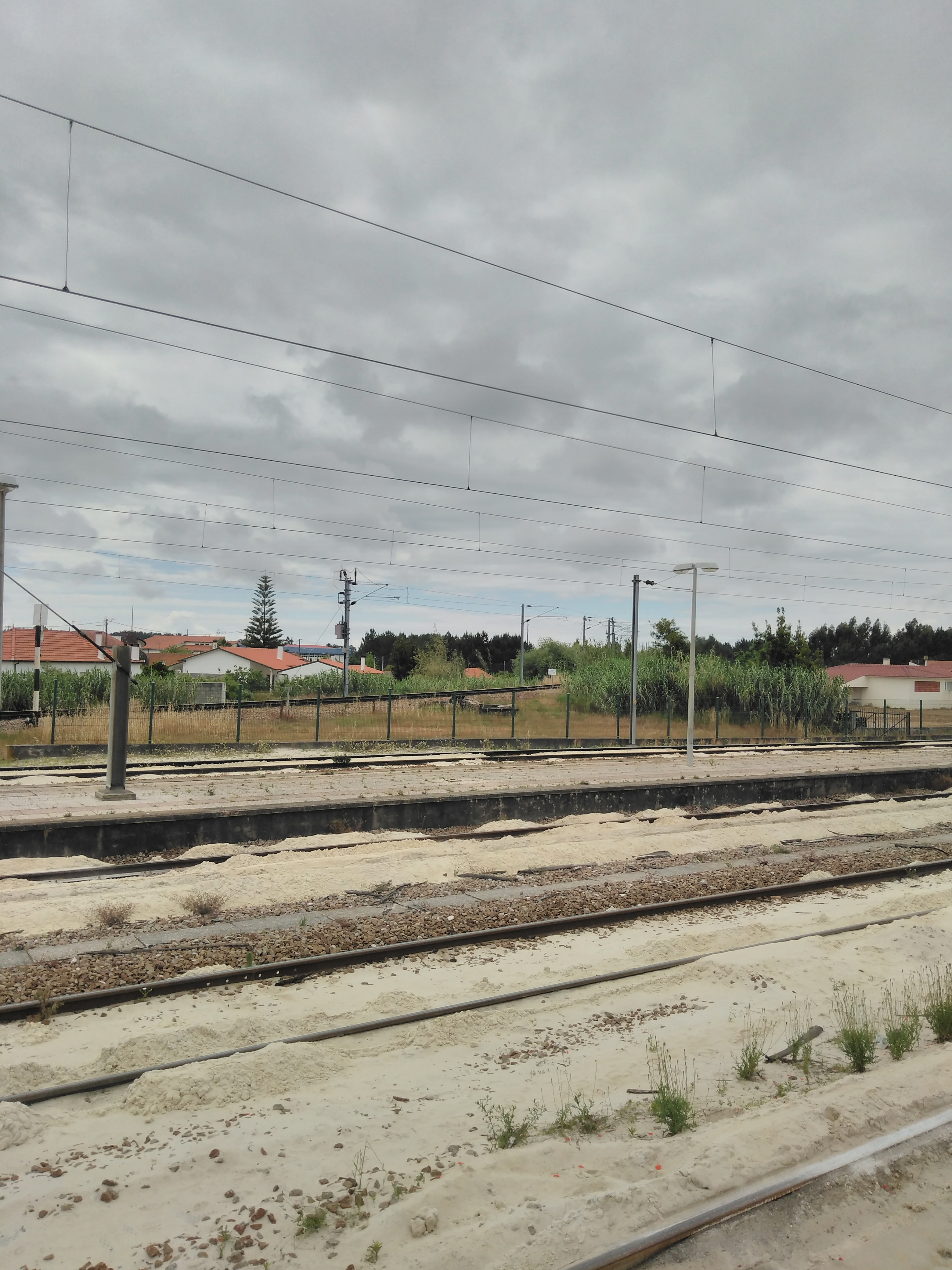 At Louriçal train station the Louriçal branch line (Ramal do Louriçal) diverges from the Western Railway (Linha do Oeste), Louriçal, Portugal